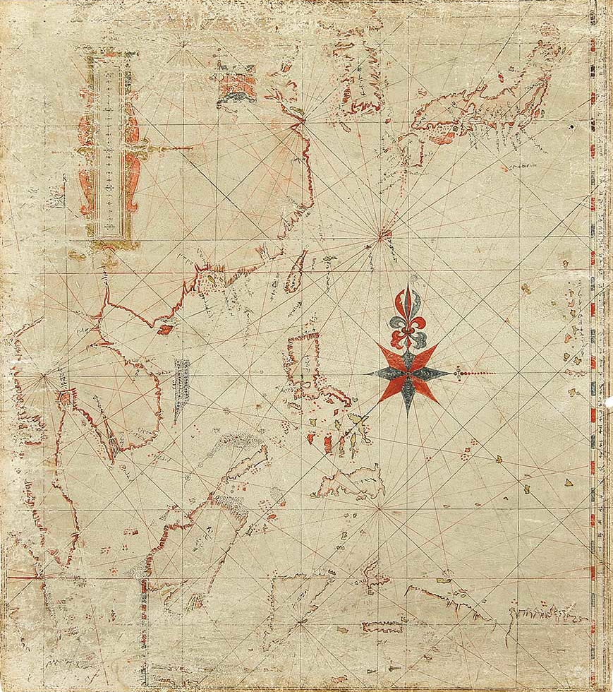 Trade-related materials of the Kadoya Family